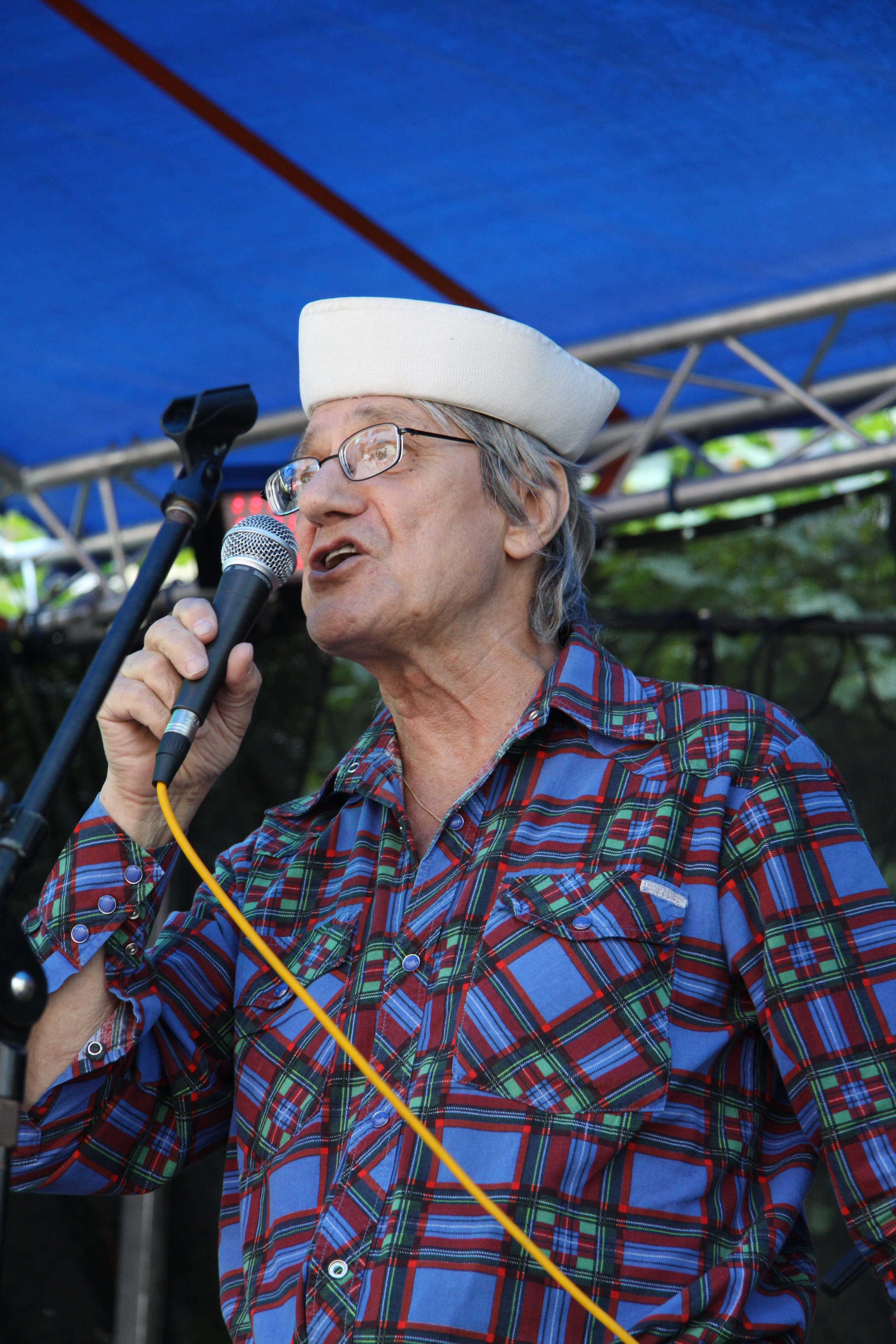 Jan Vyčítal, czech musician and texter, in Písek during of "Dotkni se Písku" - town celebration, Písek, Czech Republic Personality rights warning Although this work is freely licensed or in the public domain, the person(s) shown may have rights that legally restrict certain re-uses unless those depicted consent to such uses. In these cases, a model release or other evidence of consent could protect you from infringement claims.